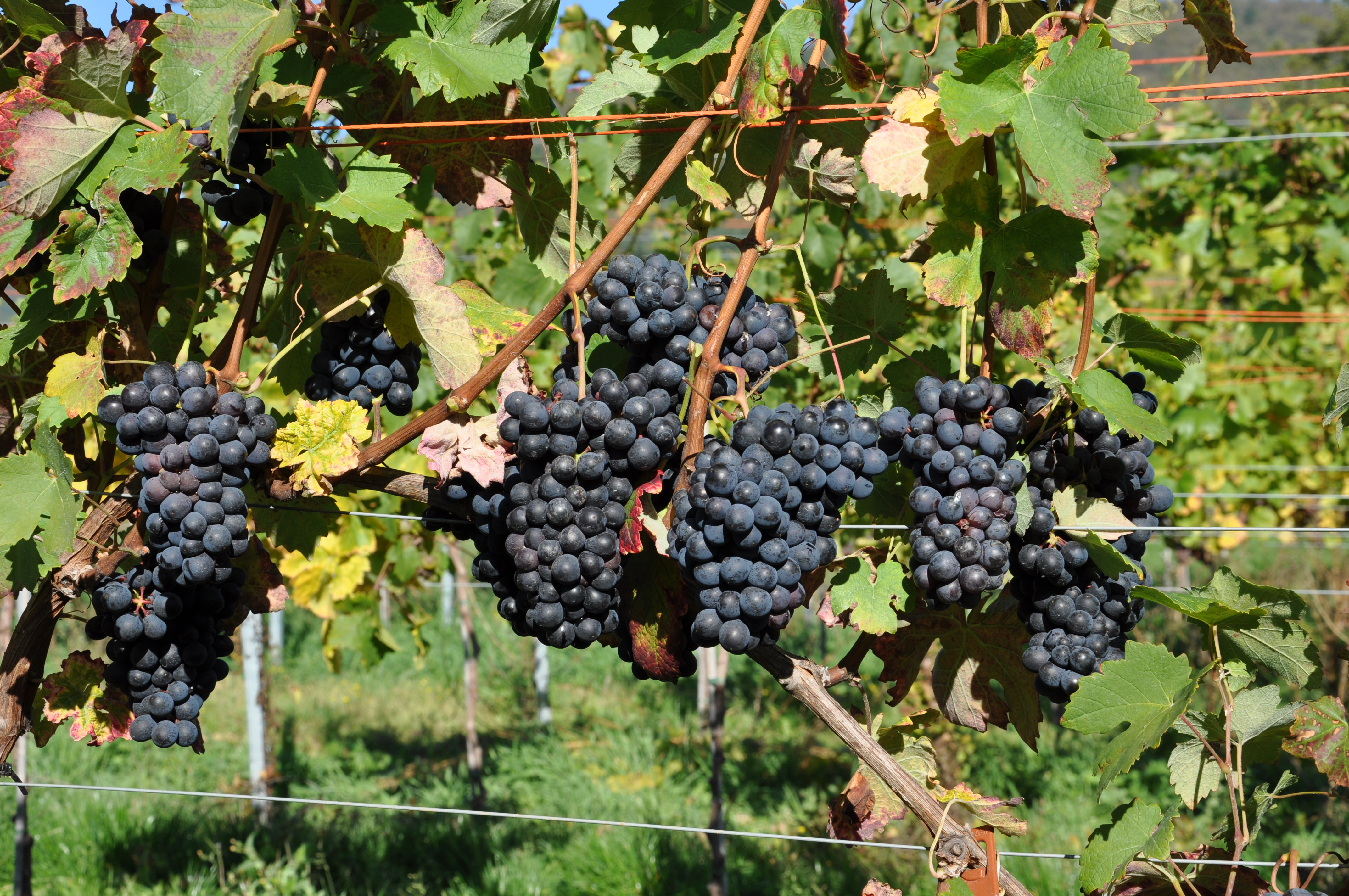 BARBERA NERA - Full plant